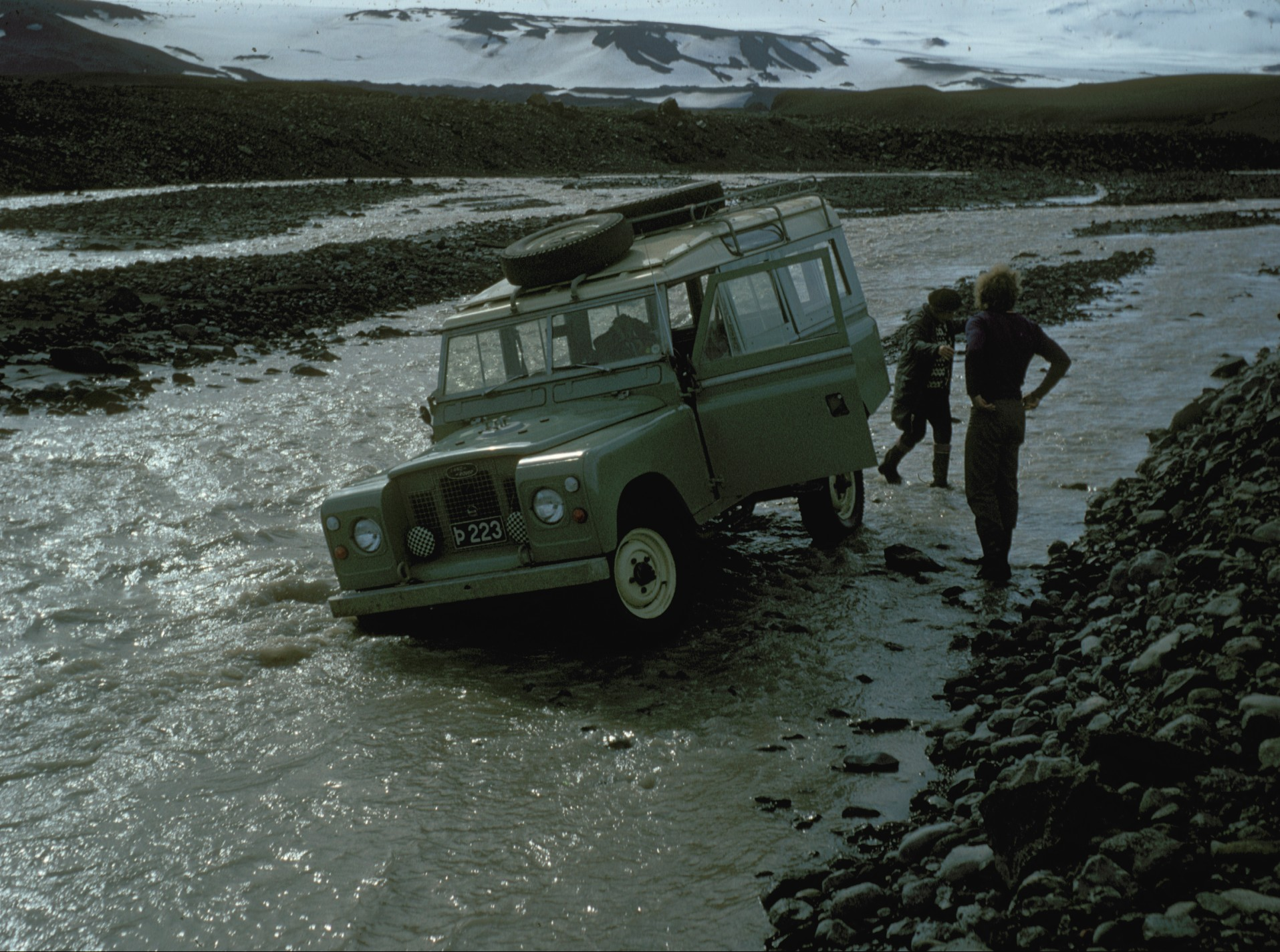 A car stuck in a river in Iceland on 28 or 30 Jul 1972. Picture taken and uploaded by Roger McLassus.